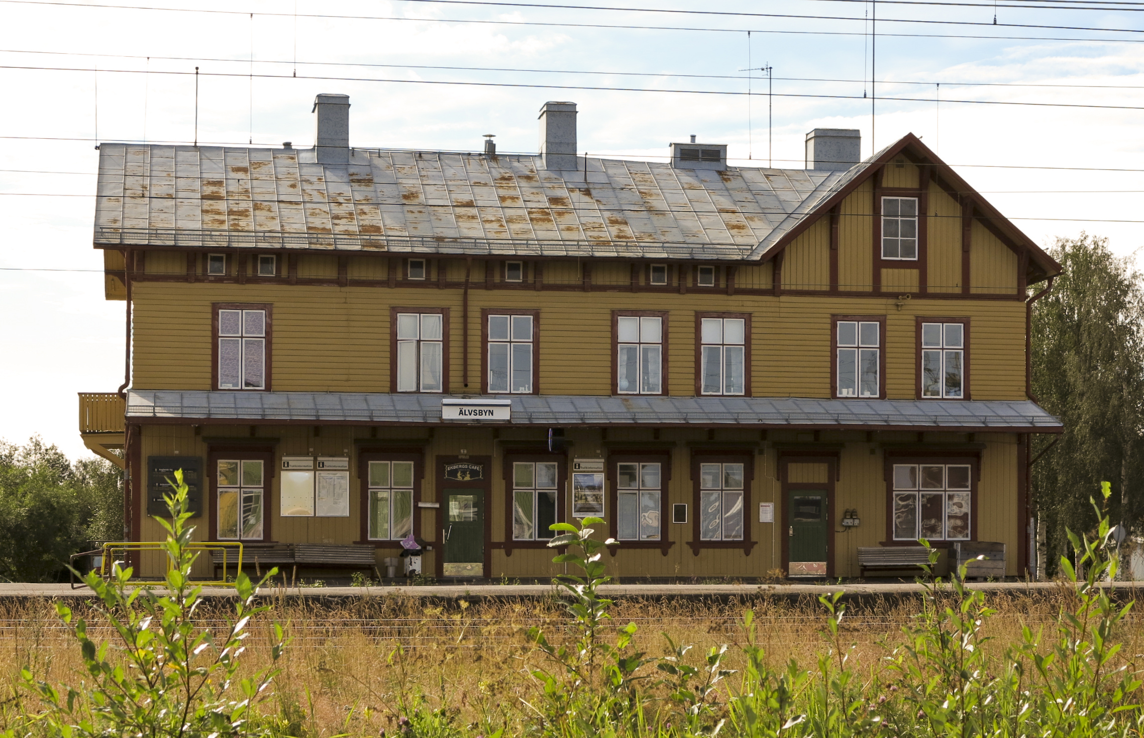 Älvsbyn rail-way station. Älvsbyn, Sweden.